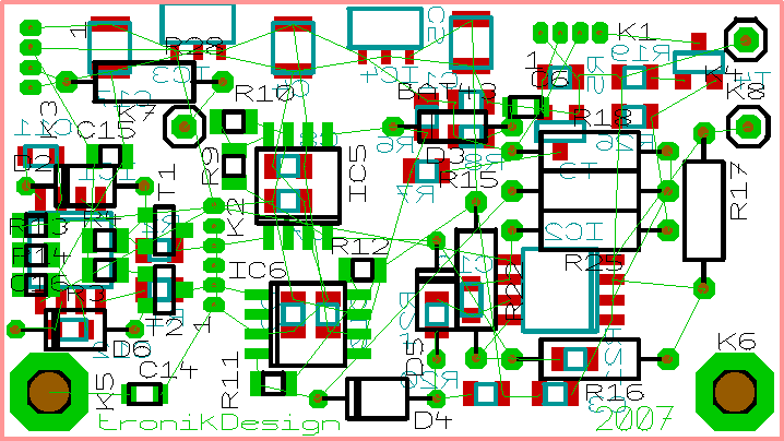 printed circuit board before traces have been routed (so-called “rats nest”)